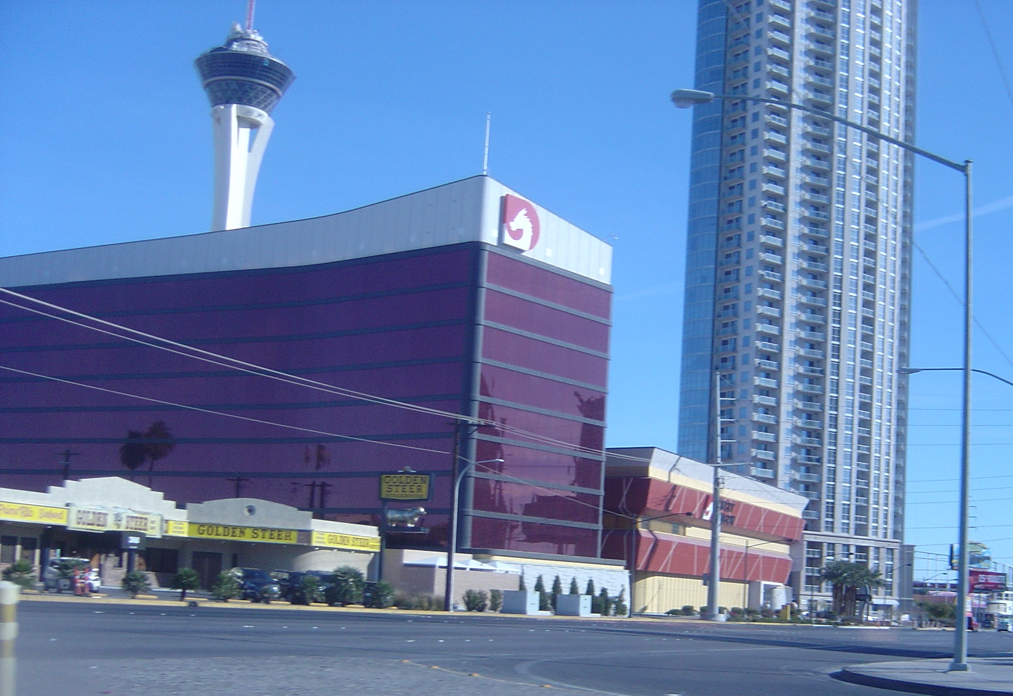 Lucky Dragon's hotel building, as well as the two-story casino building (right), both seen from the corner of West Sahara Avenue and South Bridge Lane in Las Vegas. Also seen is the Golden Steer restaurant (left), the Allure condominium tower (right), and the Stratosphere tower (left background).